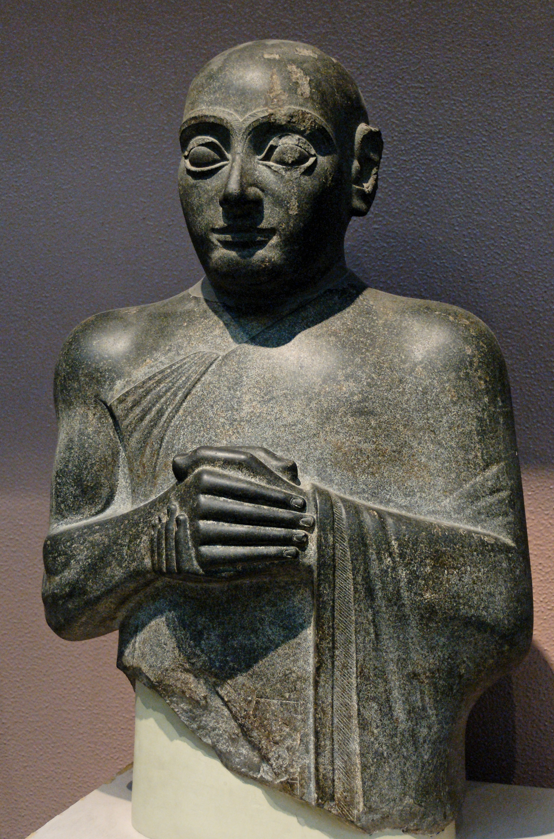 Statue of Gudea. (Statue V), Diorite, ca. 2120 BC. Origin unknown. The neck is restored; the head may be nonpertinent to the body.